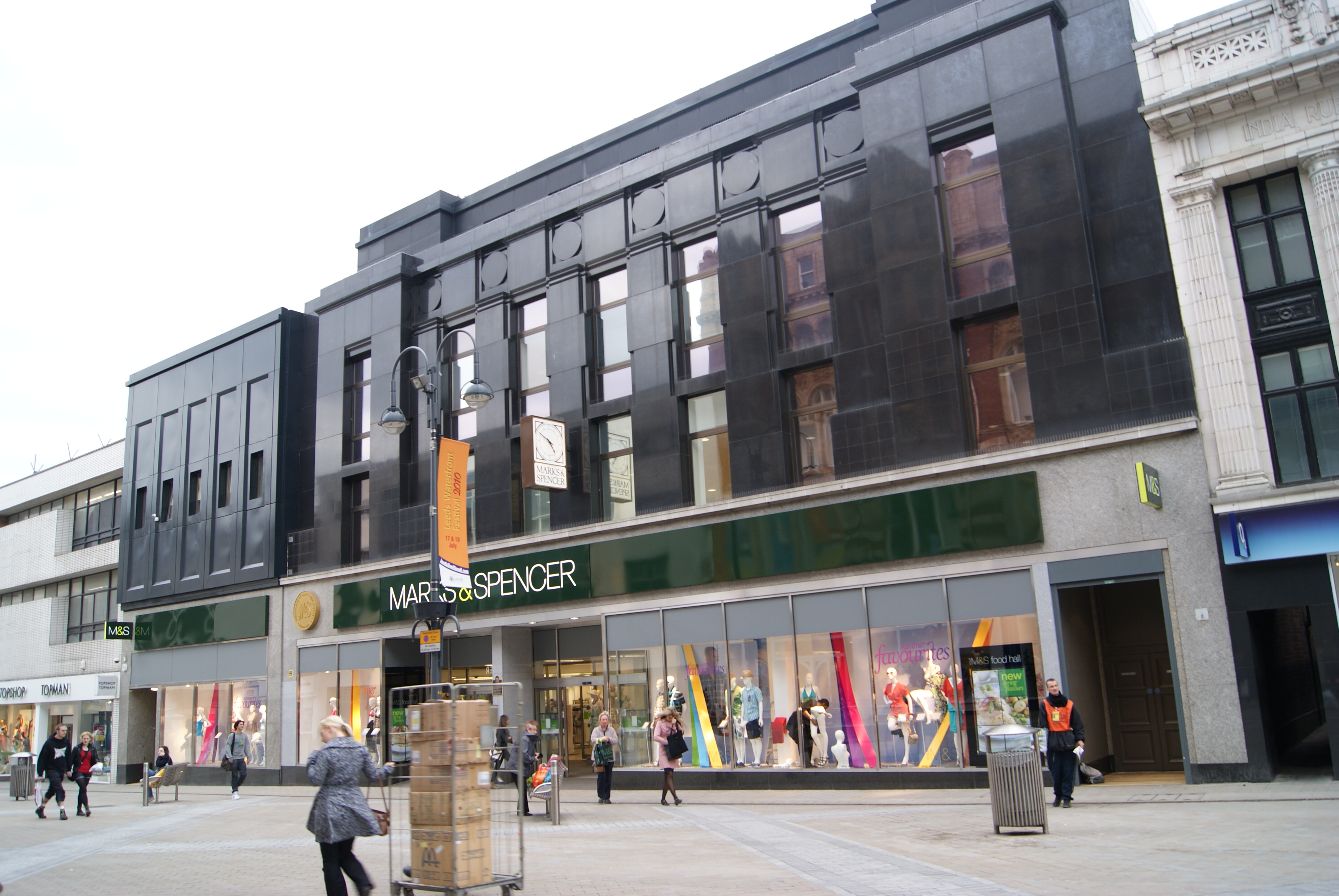 Marks & Spencer on Briggate in Leeds, West Yorkshire. Taken on the afternoon of Tuesday the 4th of May 2010.